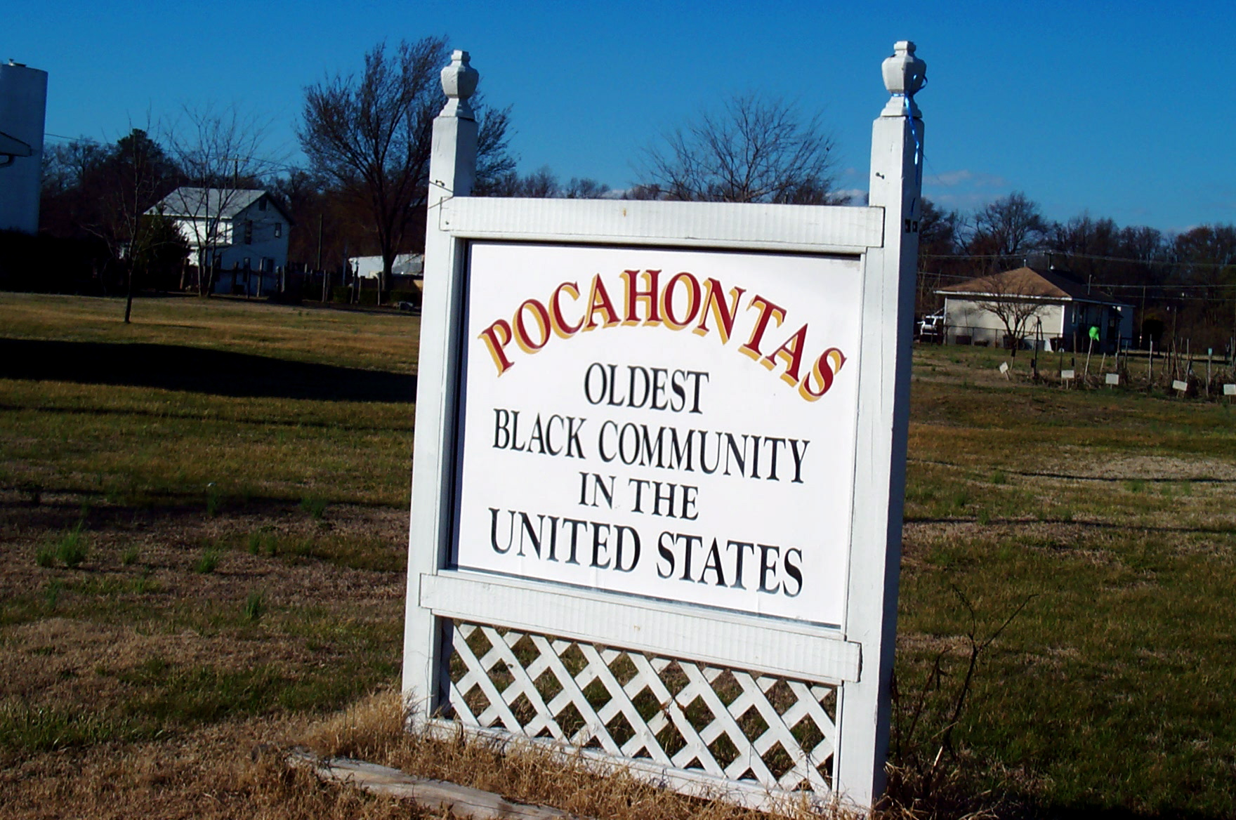 Oldest Black Community in the United States. Petersburg VA